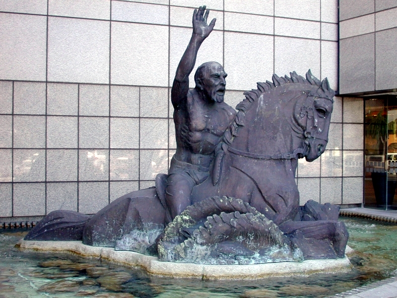 Statue of Wolraad Woltemade near Woltemade train station, Cape Town. To be used here